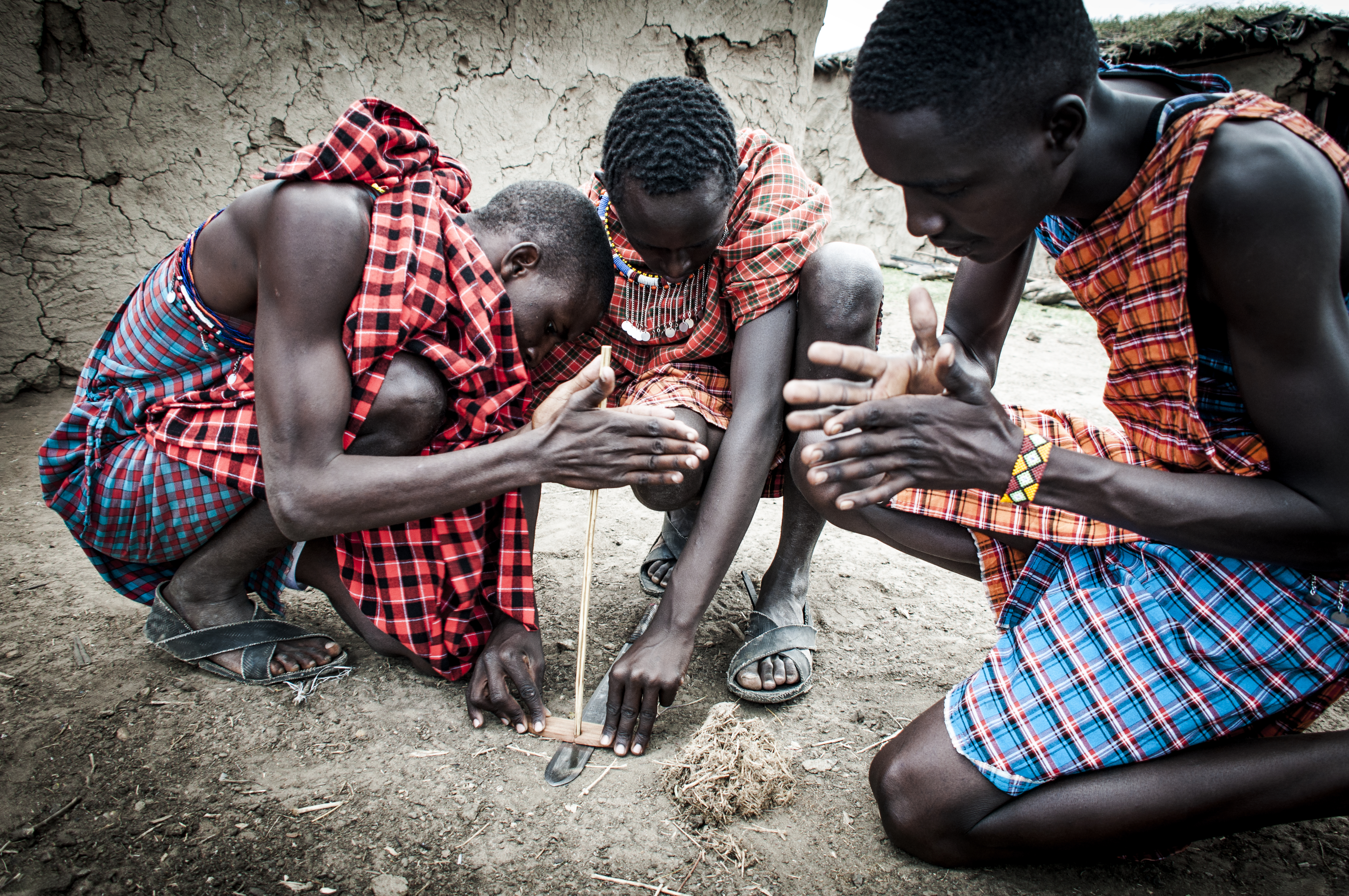 Masai warriors lighting a fire using a traditional technique, based on friction of different woods, in their local village in the Masai Mara. This is an image of "African people at work" from Kenya